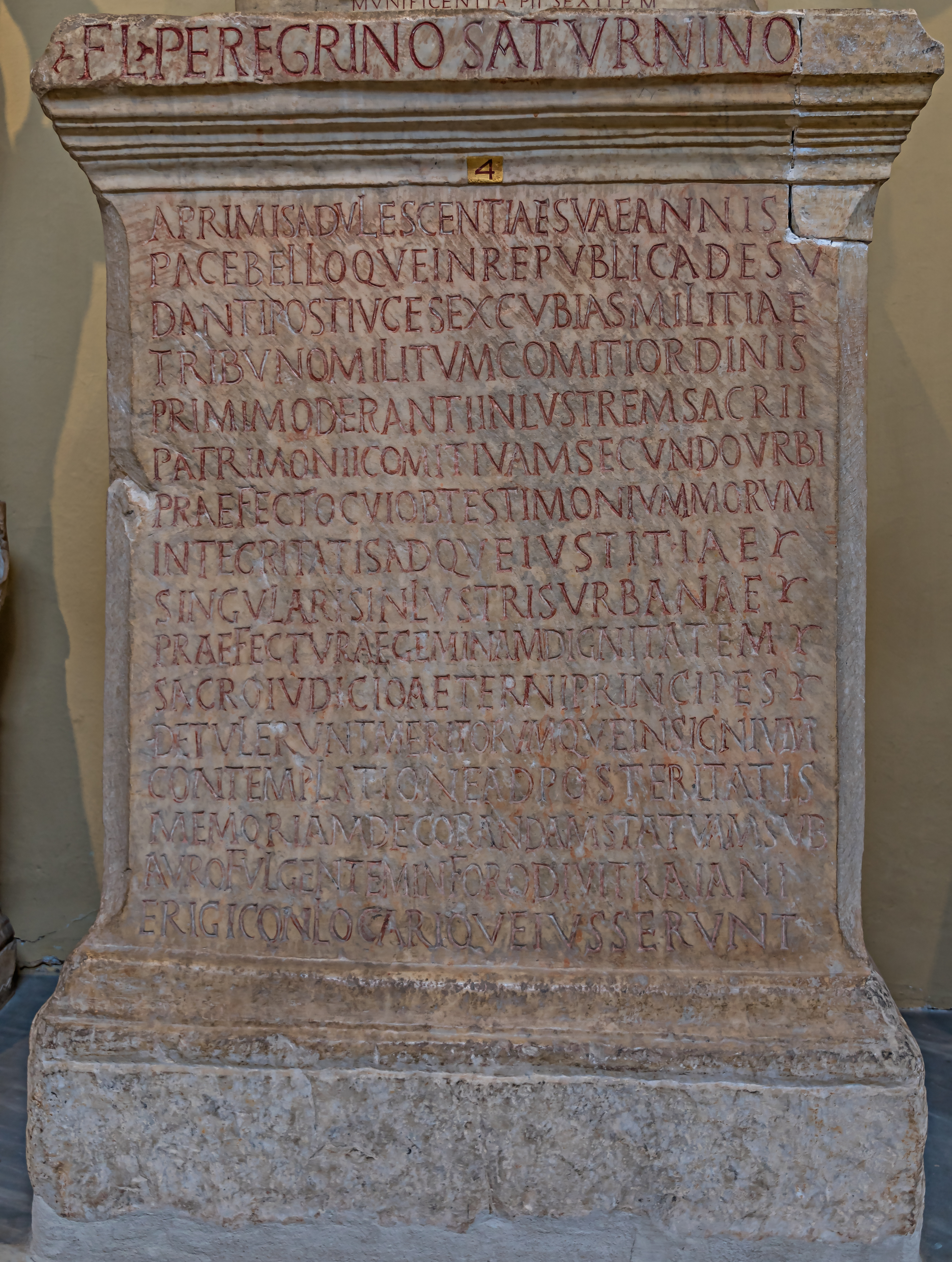 The base have had held a statue dedivated in the forum of Trajan by the emperors Arcadius and Honorius to Flavius Saturninus Peregrinus, shortly after 402 AD. mentioned also in the Codex Theodosianus as administrator of imperial property, Saturninus twice holdig the post of Prefect of Rome. The base is exhibited in the Vatican Museums (Inv. 1848).